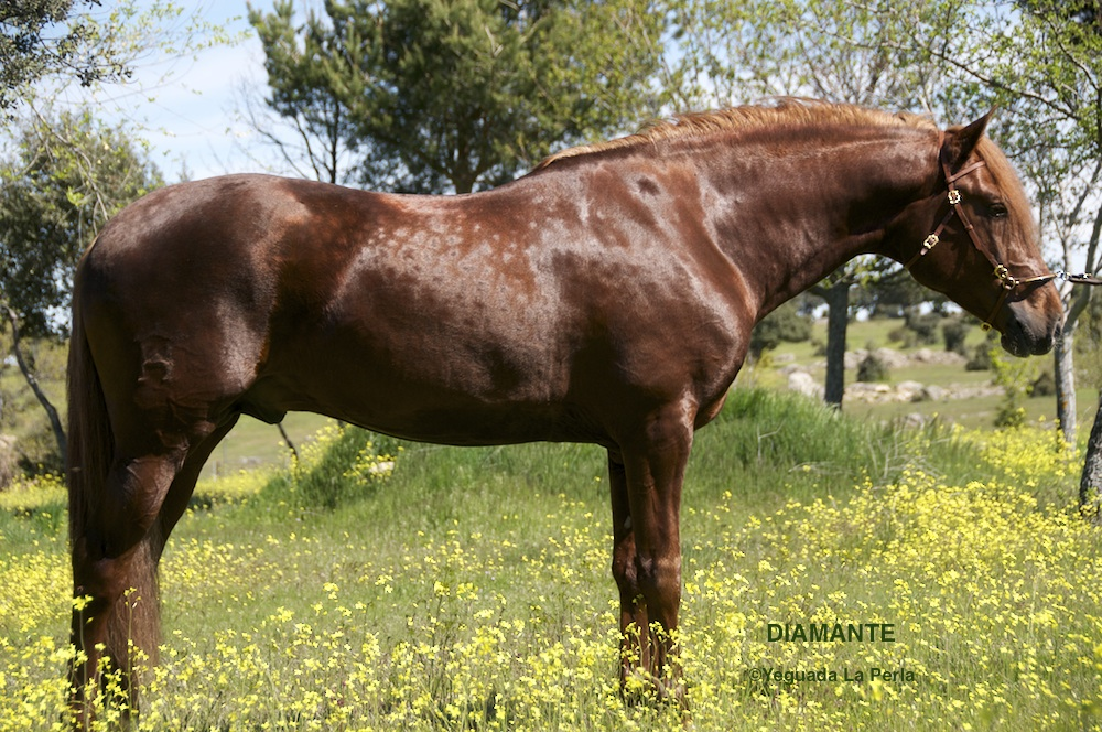 Lusitano stallion from Yeguada La Perla. Born 2008. Lusitano Horse.